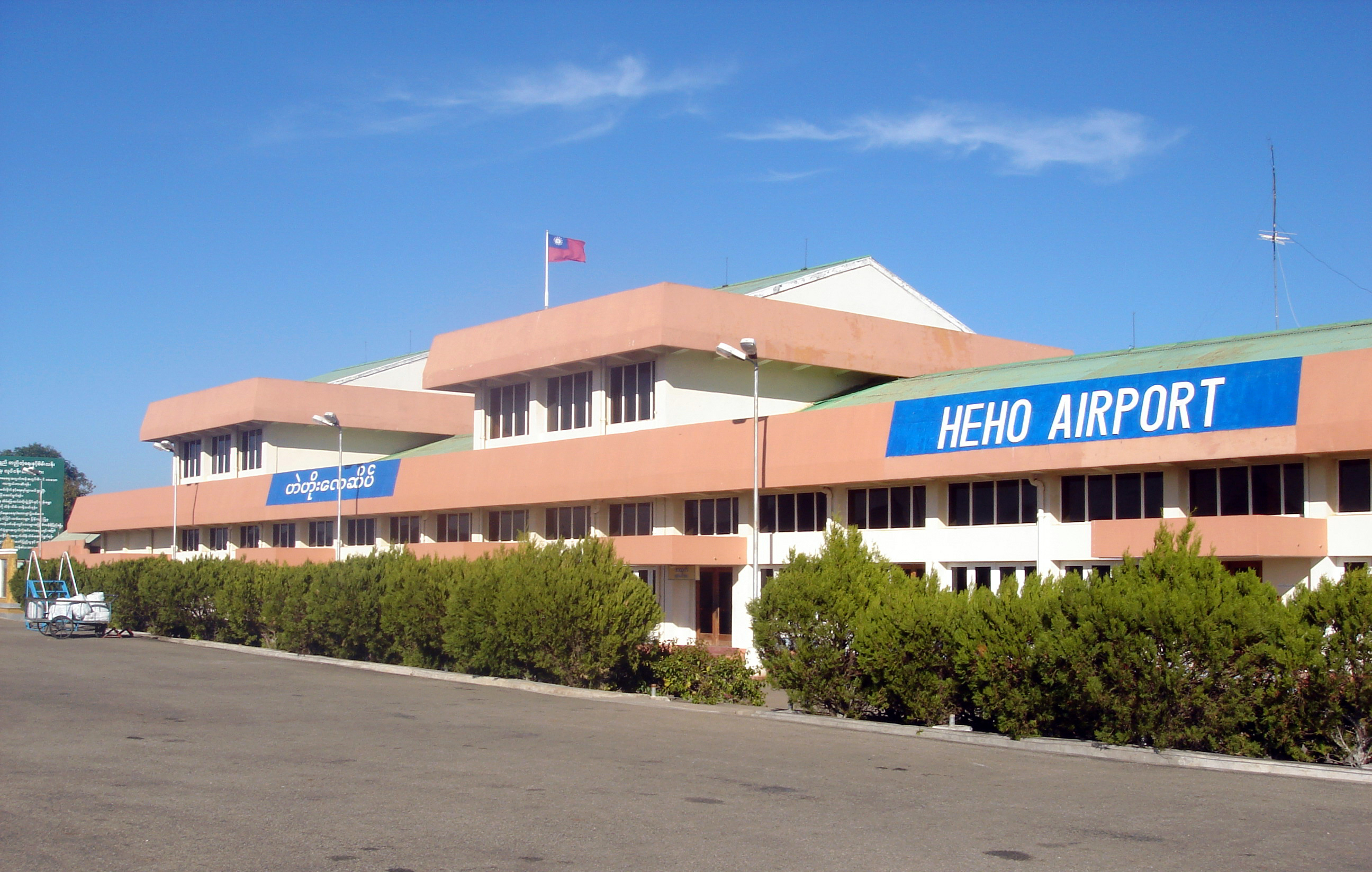 Heho, Kalaw Township, Taunggyi District, Shan State, Myanmar Main Build of Heho Airport located in Heho, Kalaw Township, Taunggyi District, Shan State, Myanmar